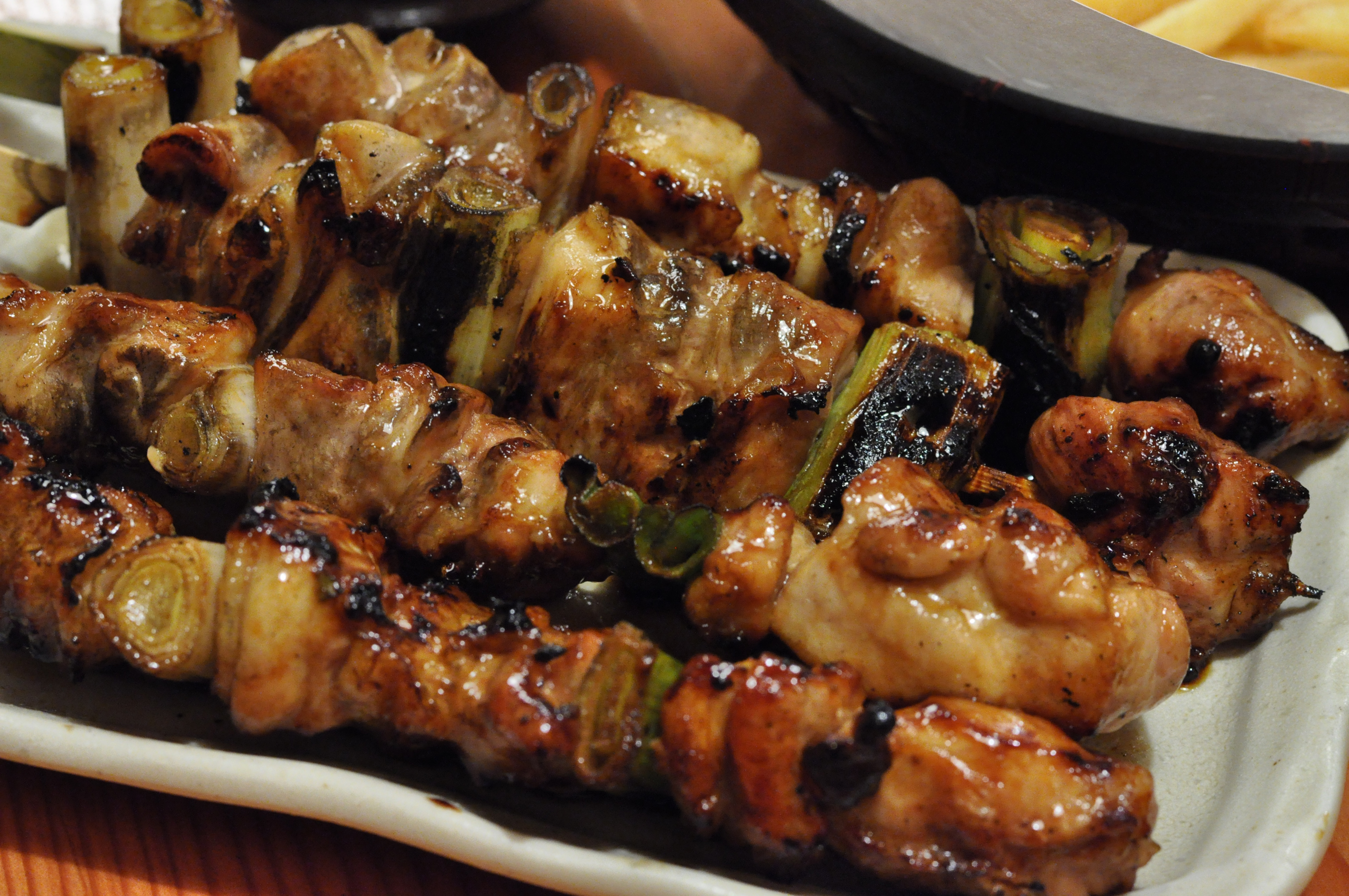 Negima yakitoro